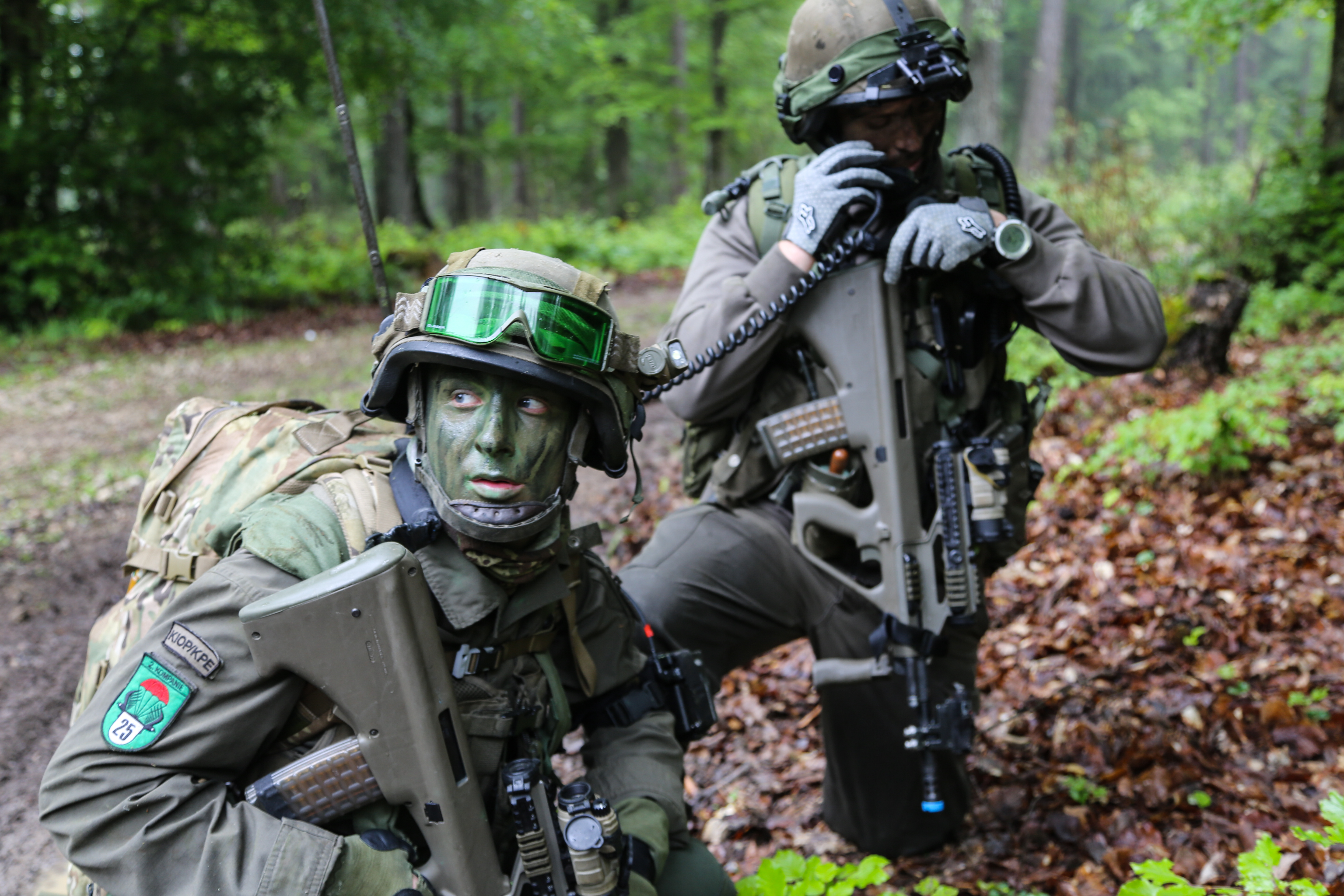 Austrian soldiers of 2nd Company, 25th Infantry Battalion, 7th Infantry Brigade report enemy activity during exercise Combined Resolve II at the Joint Multinational Readiness Center in Hohenfels, Germany, May 19, 2014. Combined Resolve II is a multinational decisive action training environment exercise occurring at the Joint Multinational Training Command’s Hohenfels and Grafenwoehr Training Areas that involves more than 4,000 participants from 15 partner nations. The intent of the exercise is to train and prepare a U.S. led multinational brigade to interoperate with multiple partner nations and execute unified land operations against a complex threat while improving the combat readiness of all participants. (U.S. Army photo by Spc. Justin De Hoyos/Not Reviewed)